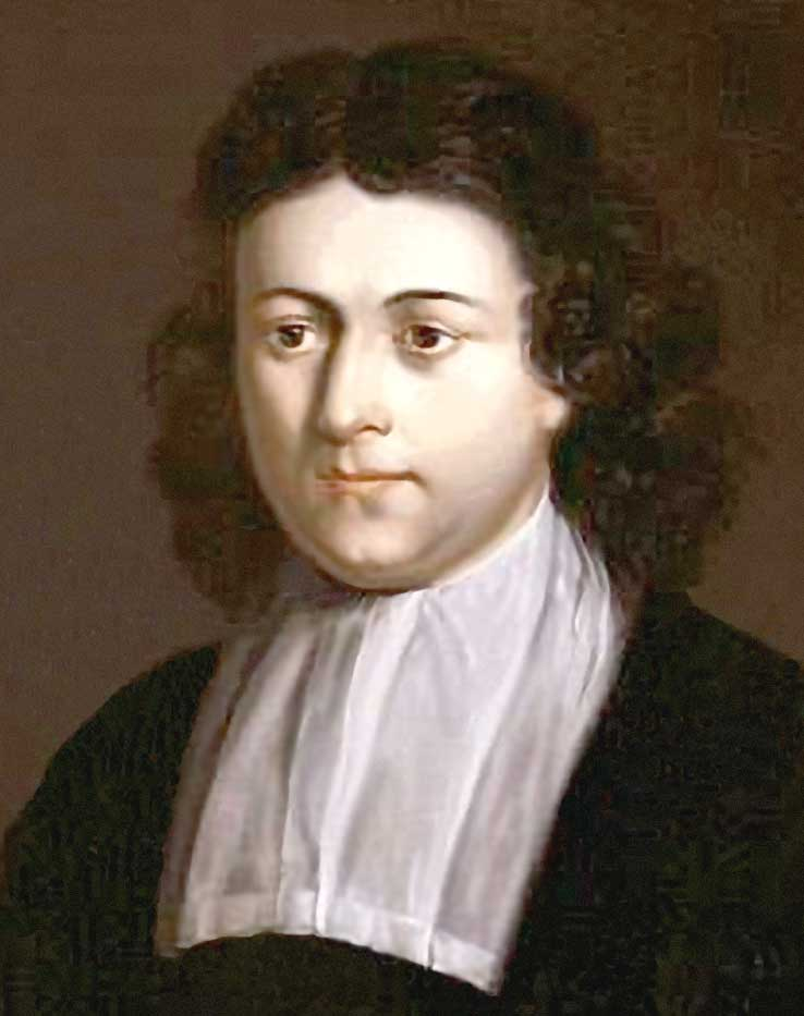 Pieter Burmann der Ältere (1668-1741)